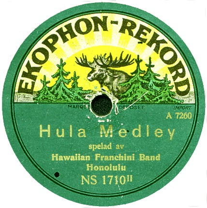 Example of the German-Swedish Ekophon record label.